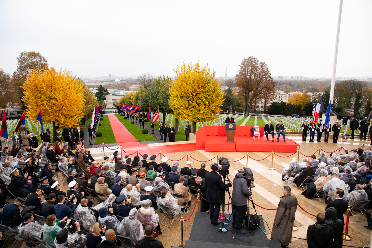 President Donald J. Trump at the American Commemoration Ceremony at Suresnes American Cemetery Sunday, Nov. 11, 2018 (Official White House Photo by Shealah Craighead)